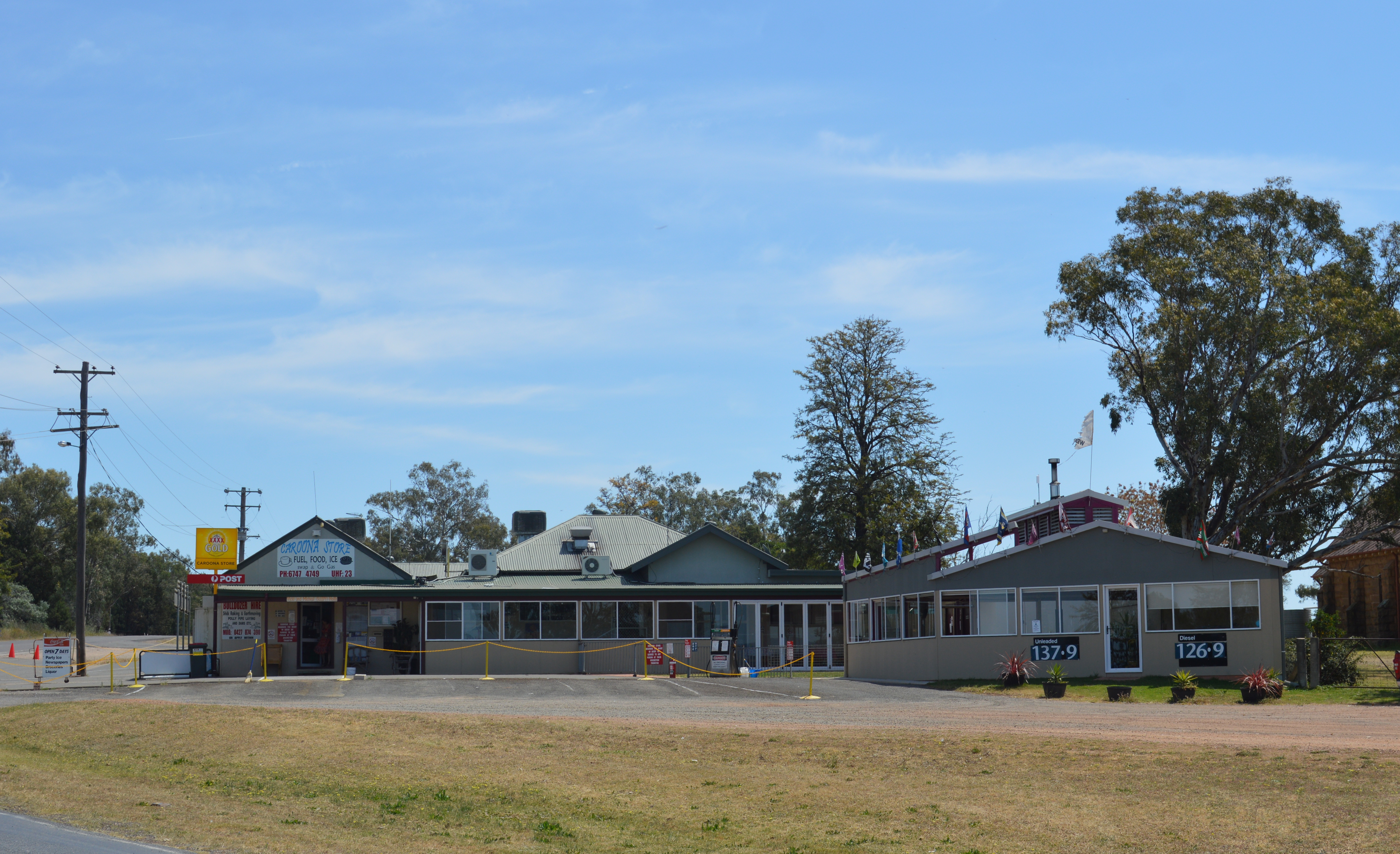 General store at Caroona, New South Wales